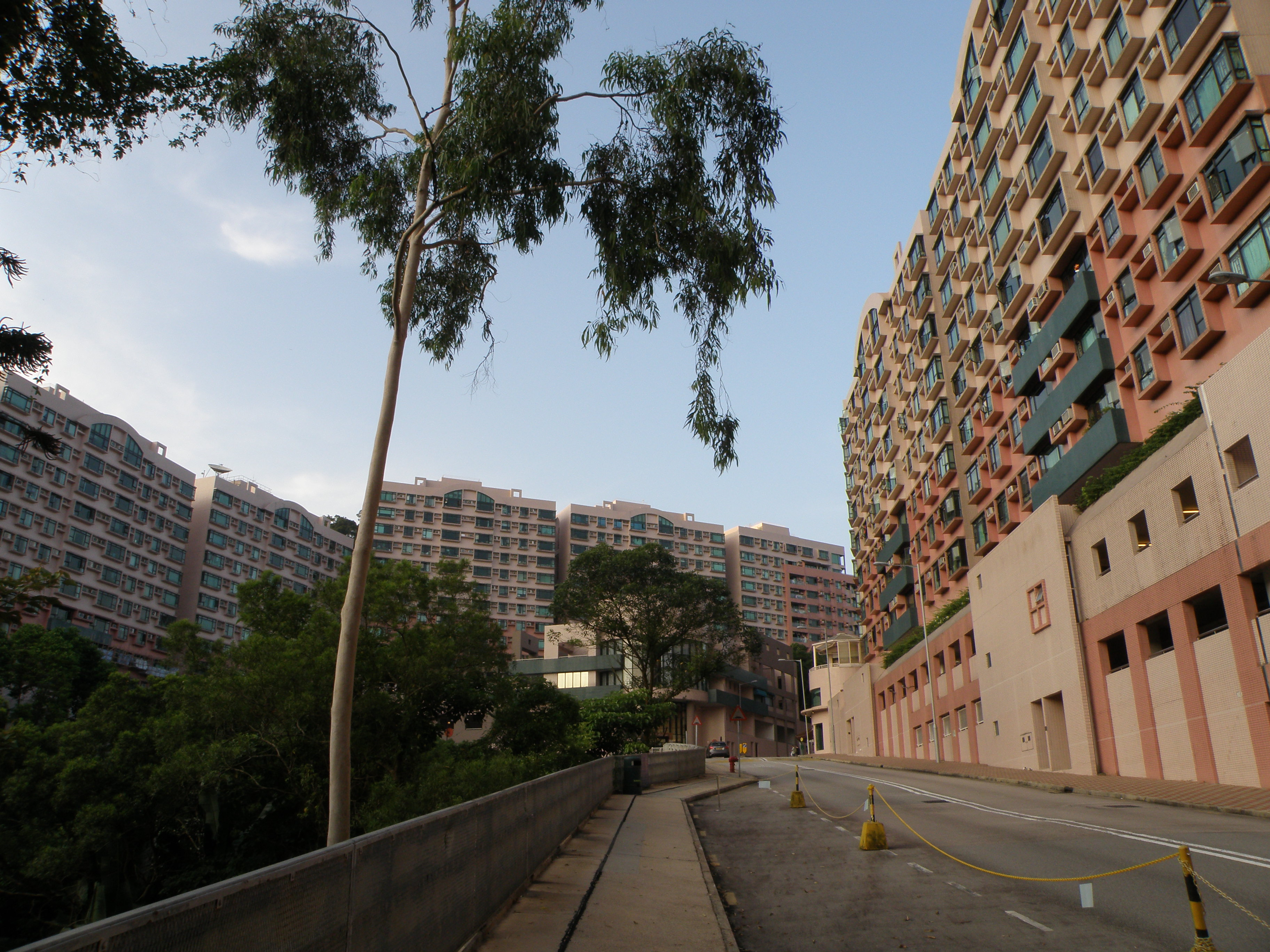 Pristine Villa, a private residence in Sha Tin, Hong Kong.